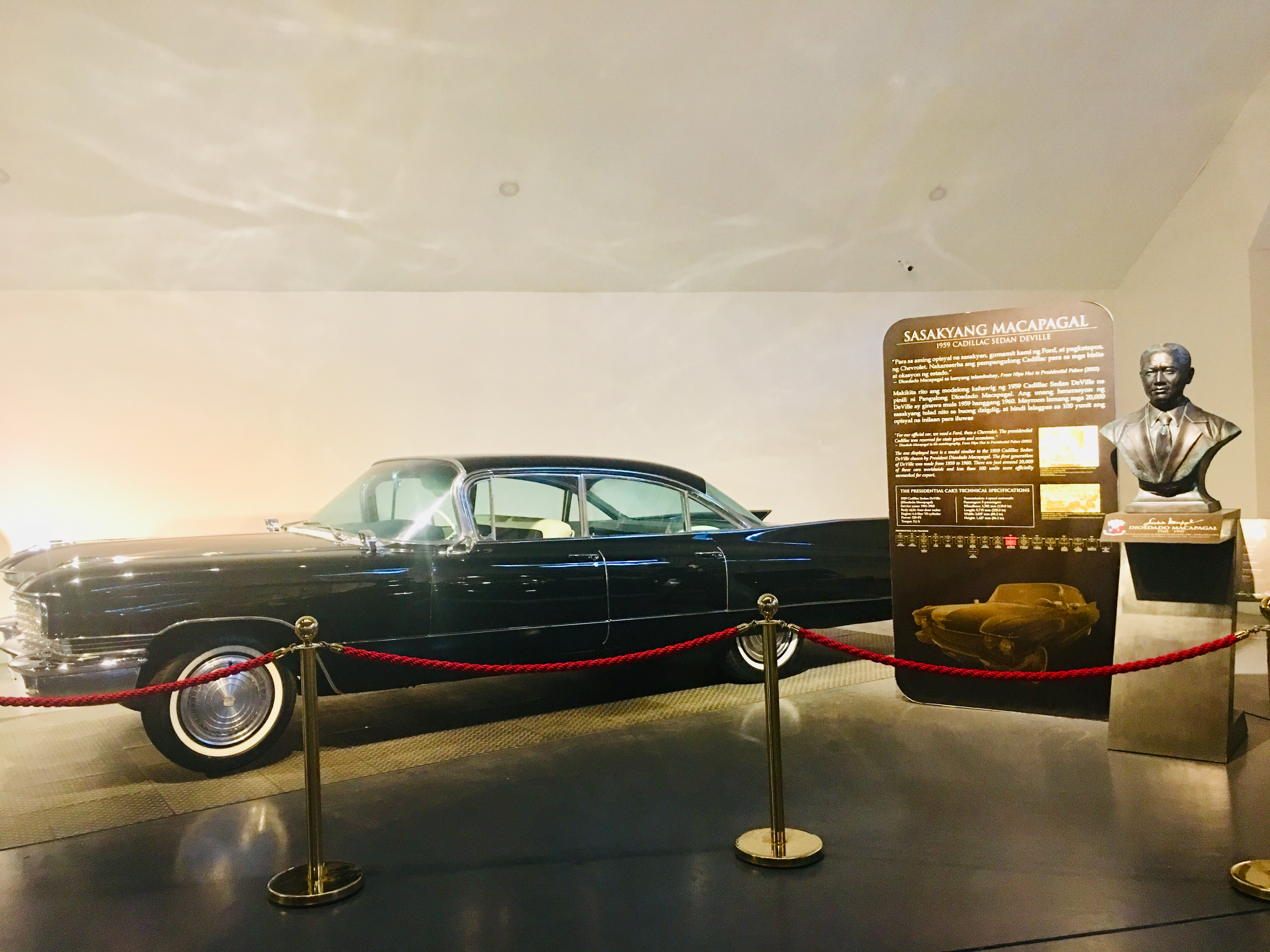 Presidential car of Diosdado Macapagal